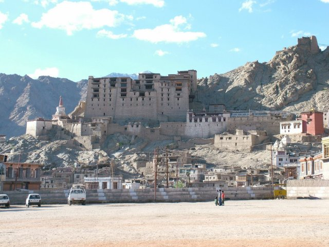 The ruined Royal Palace at Leh. Photograph taken July 2005 by Ian A. Inman (Beefy_SAFC).